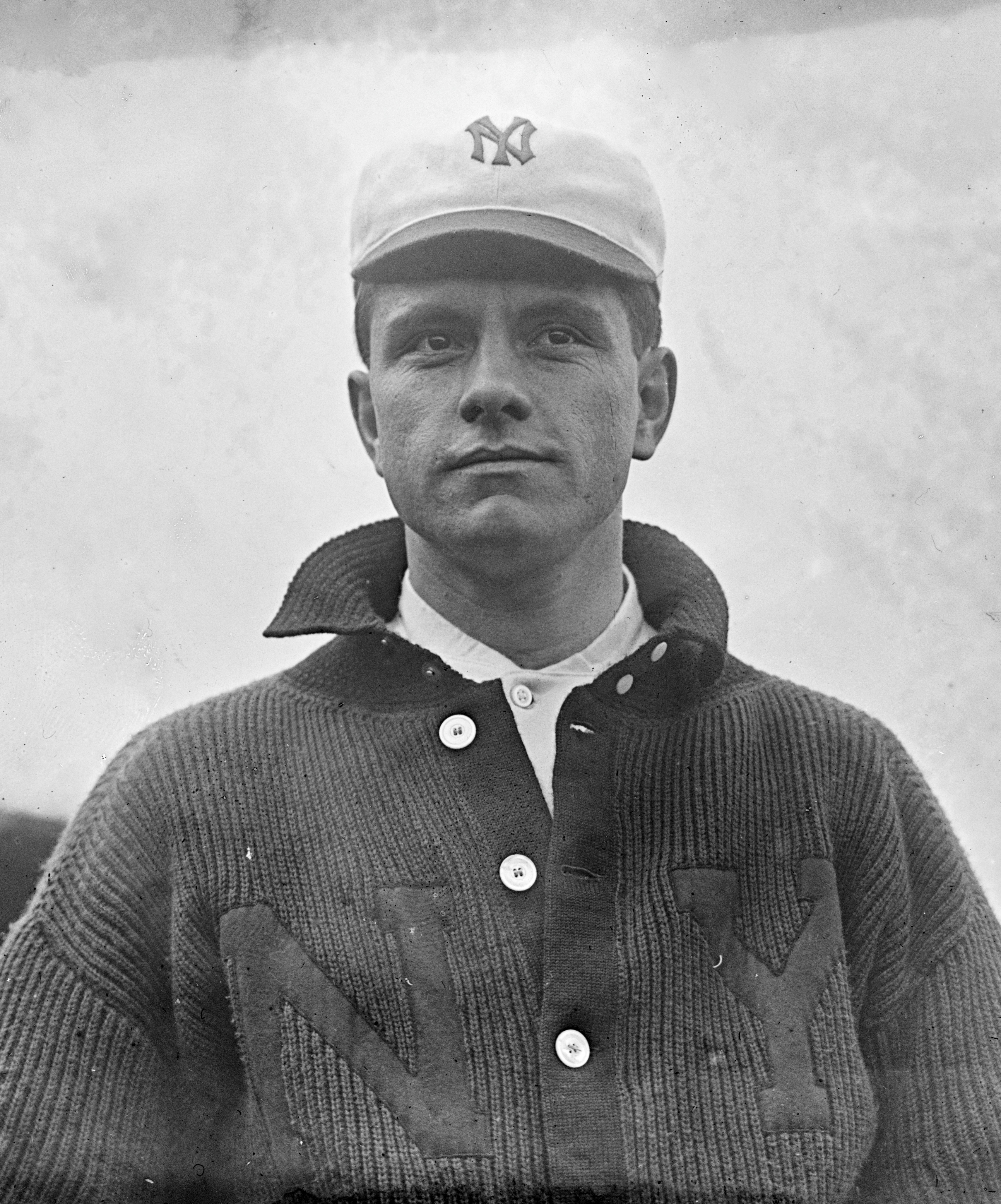 Baseball player Russ Ford of the New York Yankees. Full name: Russell William Ford (1883-1960).